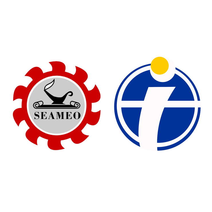 Logo of SEAMEO INNOTECH